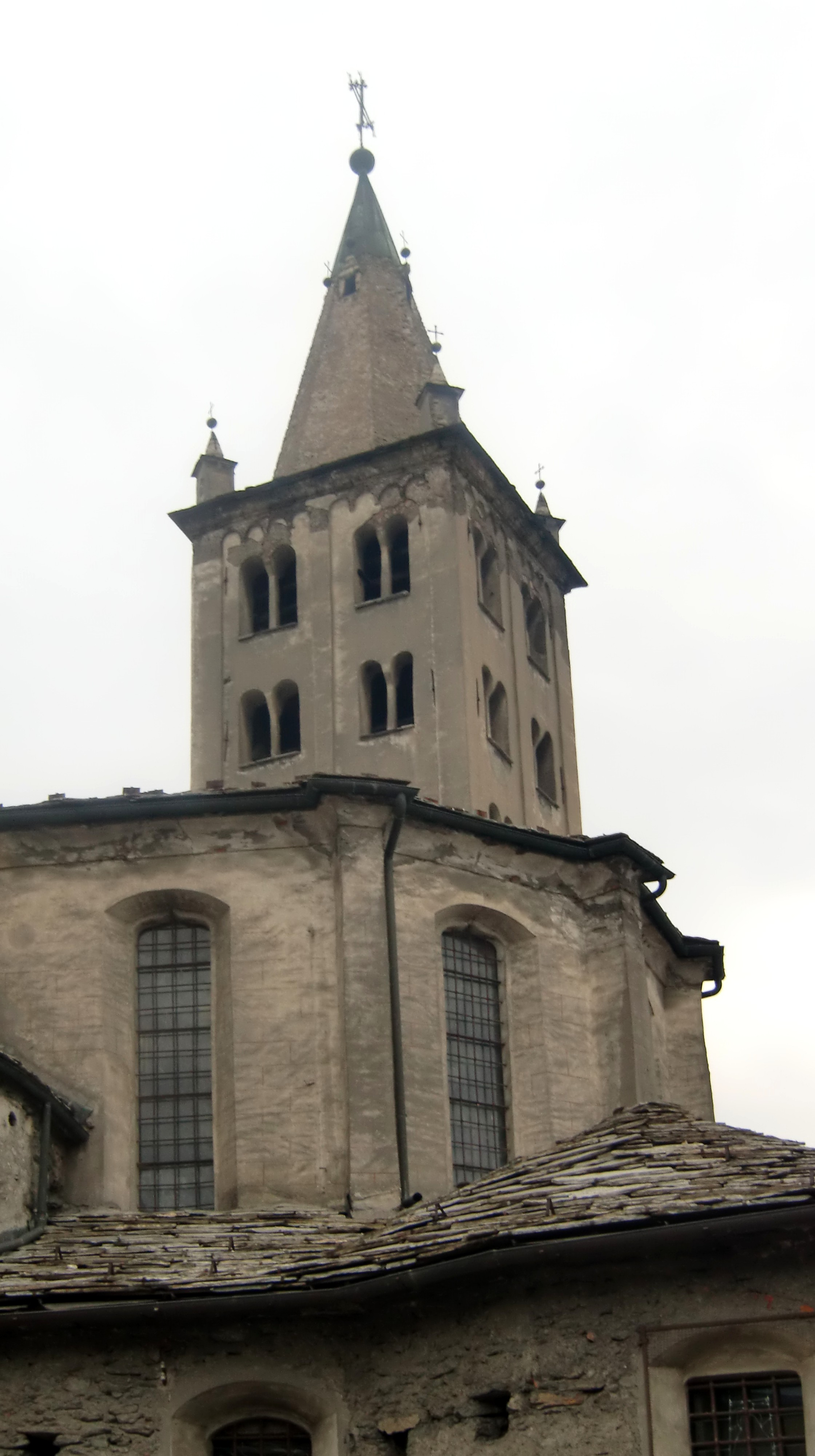 Aosta, Cathedral, the apses